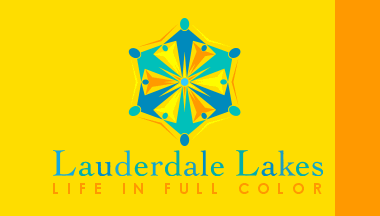 The official city flag of Lauderdale Lakes, Florida.